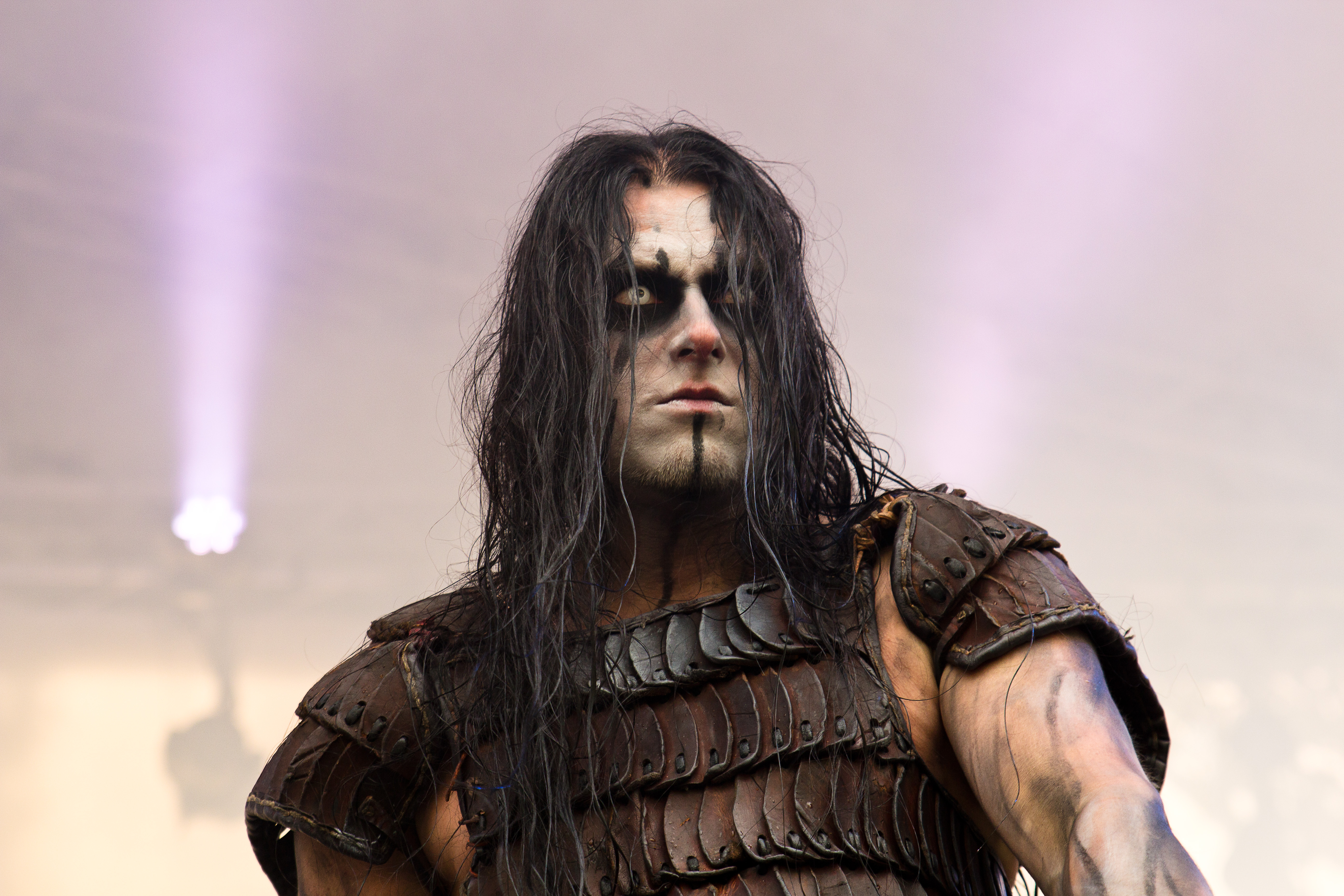 The German pagan metal band Gernotshagen at the 25. Wave-Gotik-Treffen 2016 in Leipzig/Germany.